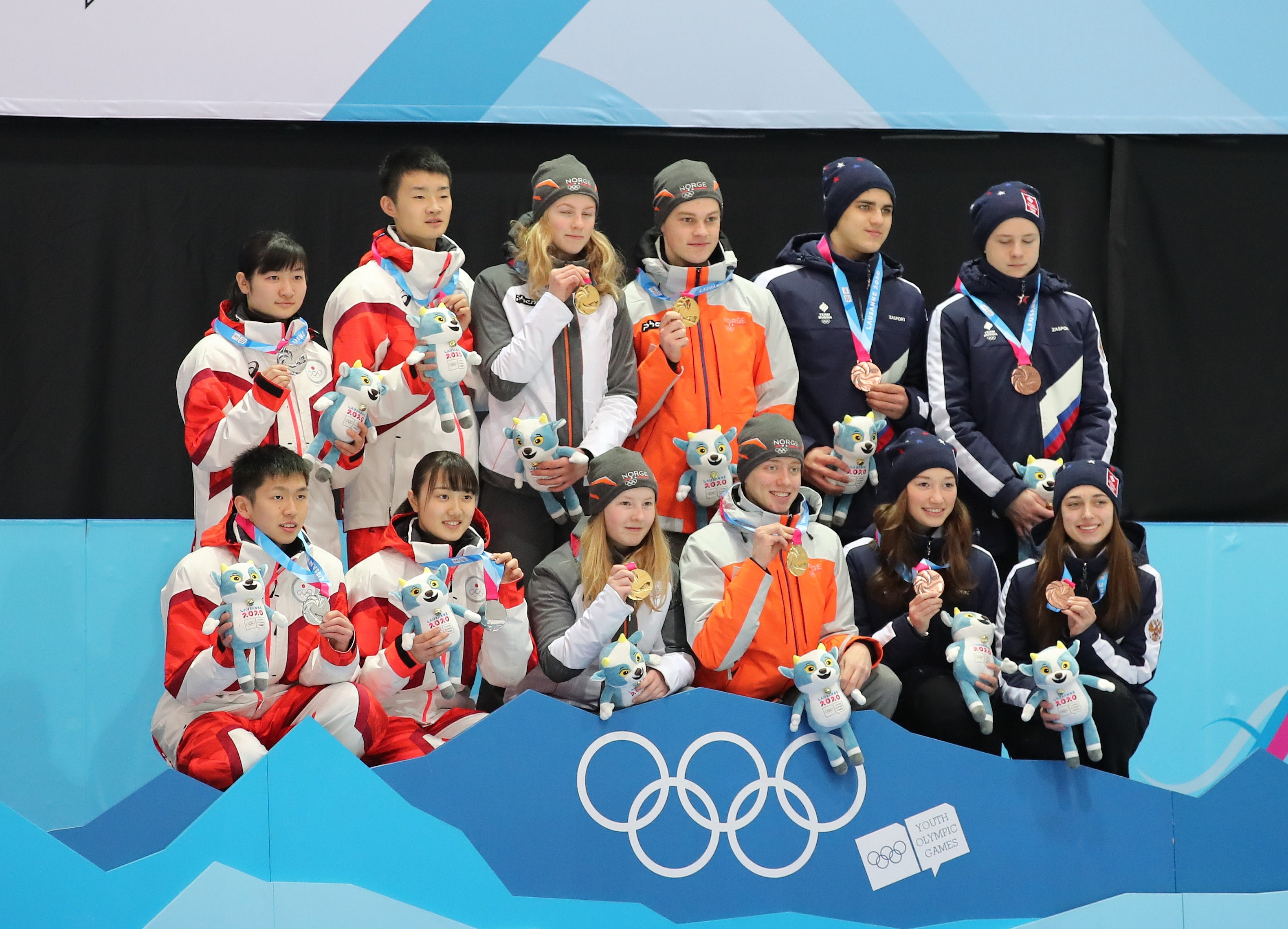 Curling Mixed Team Medal Ceremony at the 2020 Winter Youth Olympics in Lausanne on 16 January 2020.